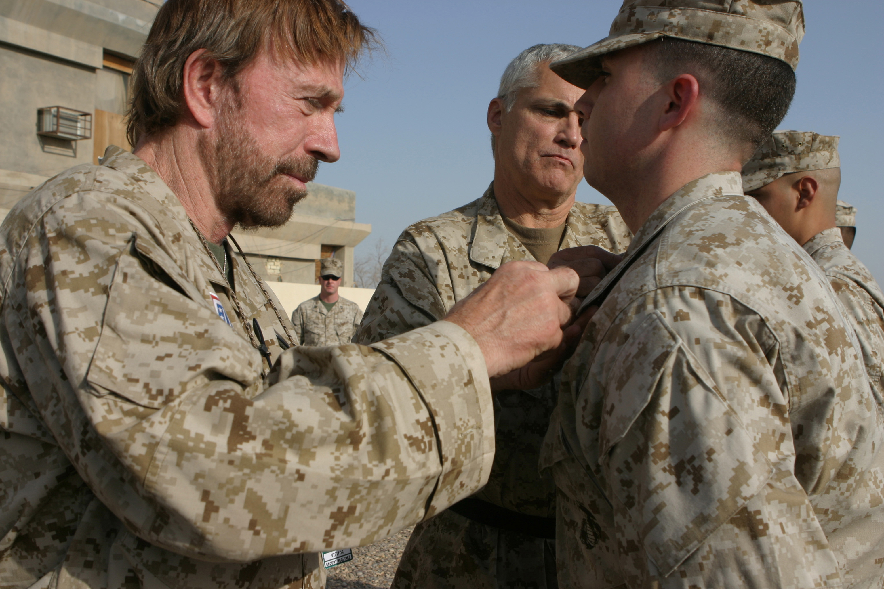 Actor Chuck Norris places corporal chevrons on U.S. Marine Corps Corporal John Wright during a promotion ceremony at Camp Taqaddum in the Al Anbar province of Iraq November 2, 2006. Norris is in Iraq on a United Service Organizations (USO) tour. Wright is an intelligence analyst with 1st Marine Logistics Group (Forward), which is deployed with I Marine Expeditionary Force (Forward) in support of Operation Iraqi Freedom.